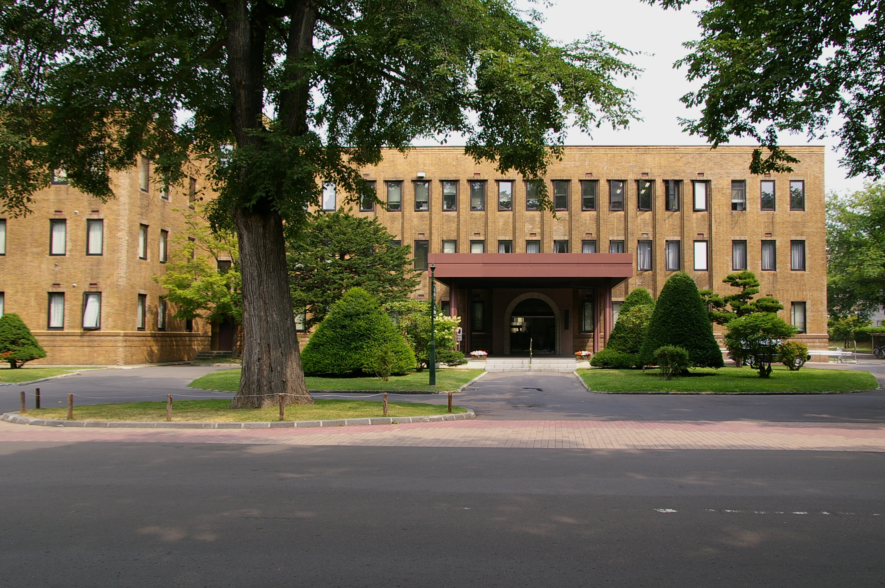 Photograph of the administration bureau of Hokkaido University in kita-ku, Sapporo, Hokkaido, Japan.